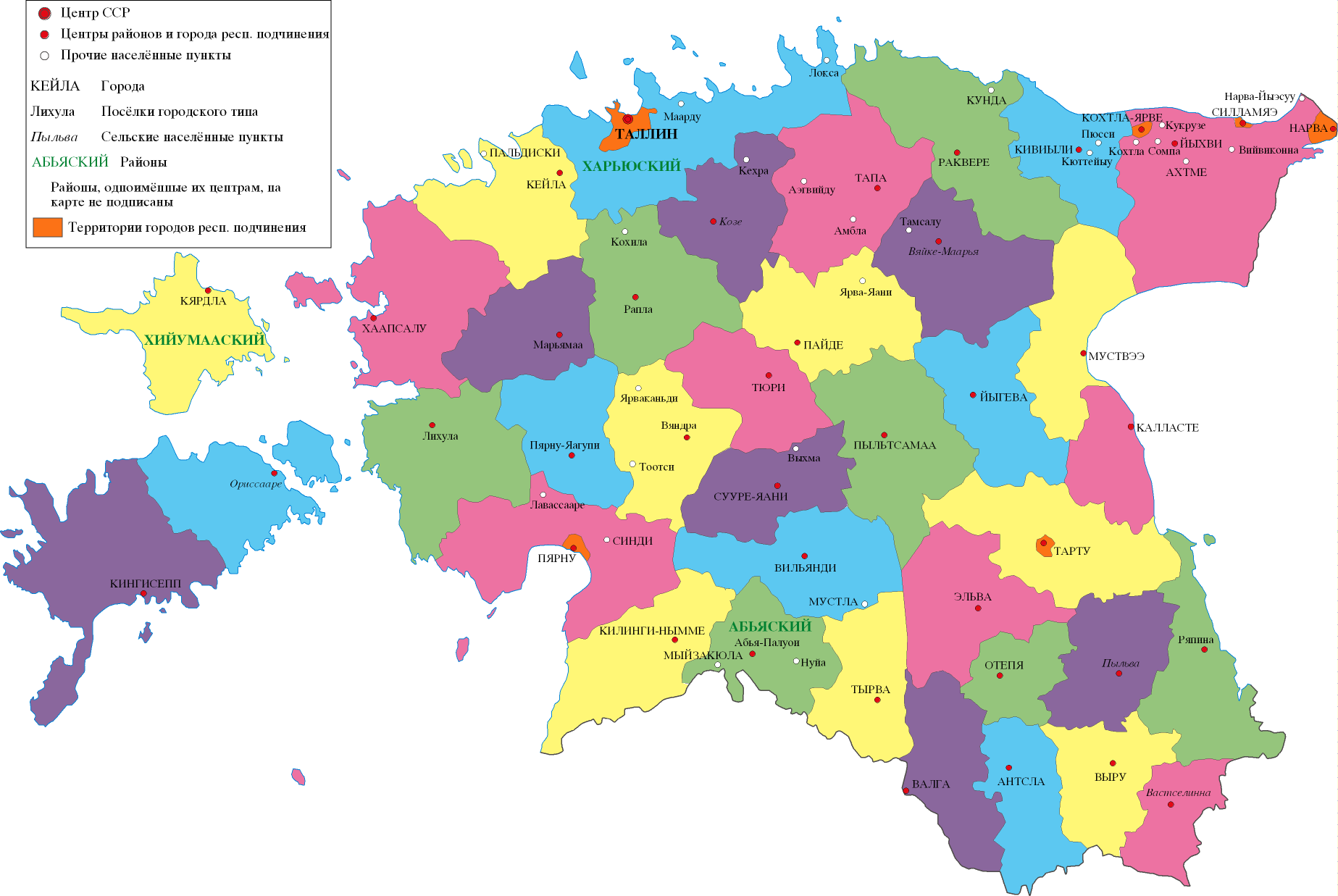 Division of Estonian SSR in 1957